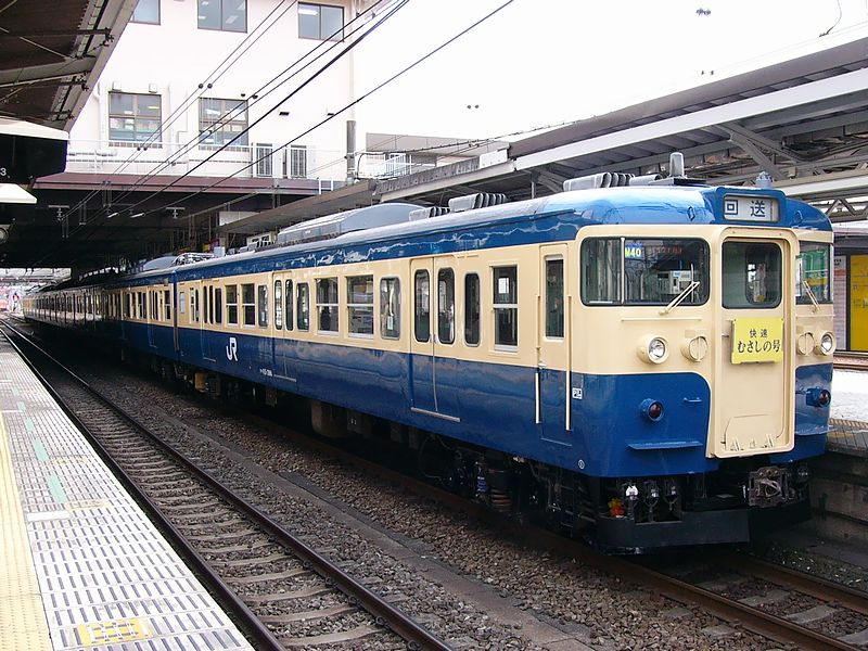 JR East 115 series 6-car EMU set M40 on a Musashino rapid service at Hachioji Station